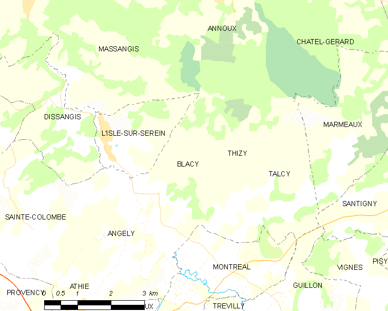 Map of French municipality Blacy